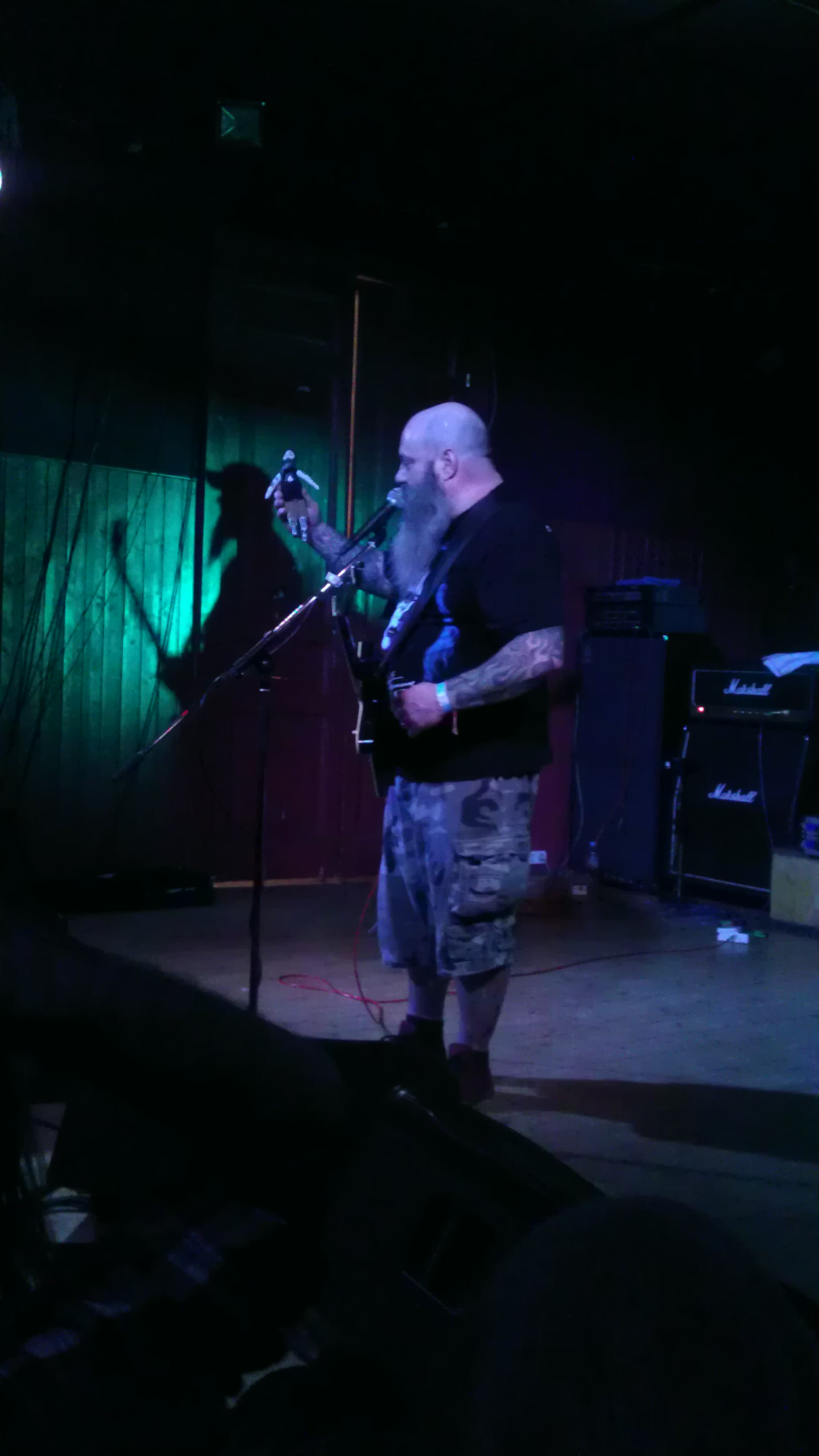 Crowbar frontman Kirk Windstein receives a doll, presumably of himself, from a fan during the live show at Mod club, Saint Petersburg, Russia.